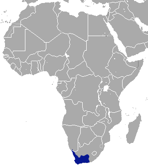 Cape Elephant Shrew (Elephantulus edwardii) range